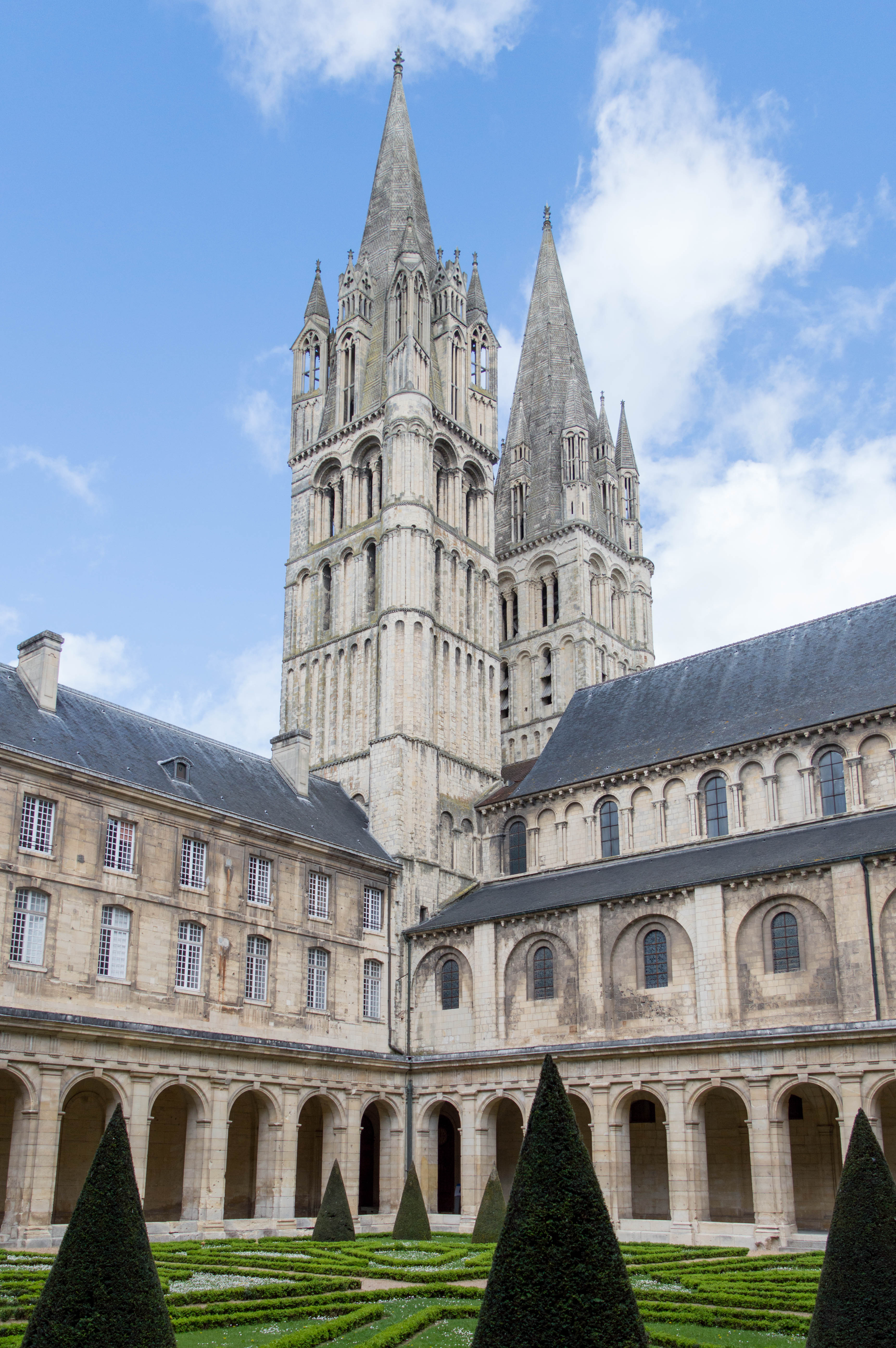 The church of Saint-Étienne, seen from the cloister of the Abbaye aux Hommes.